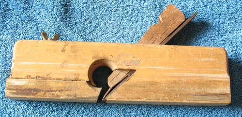 Well used rabbat plane with mouth adjustment.